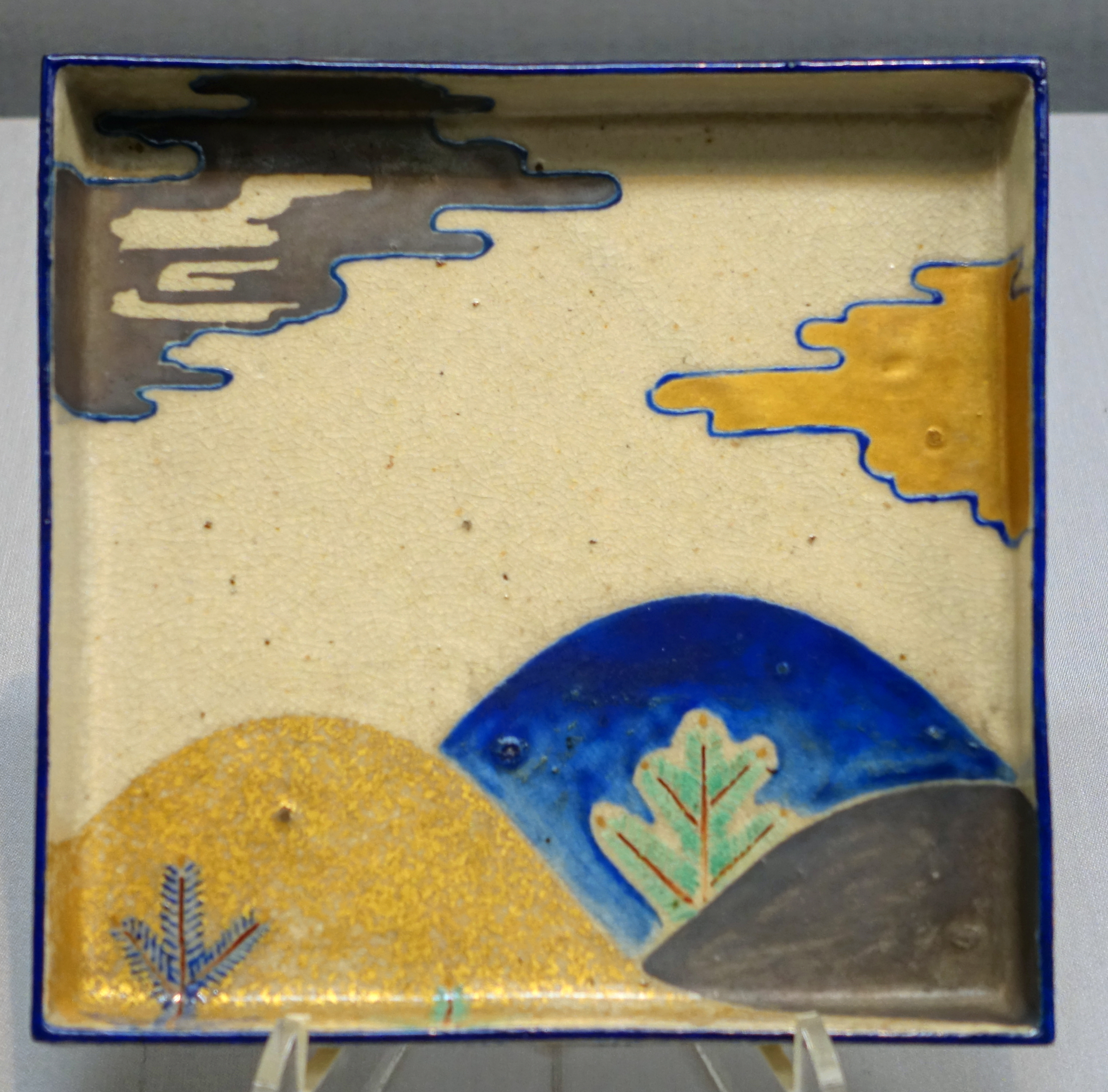 Exhibit in the Tokyo National Museum, Tokyo, Japan. This work is old enough so that it is in the public domain.